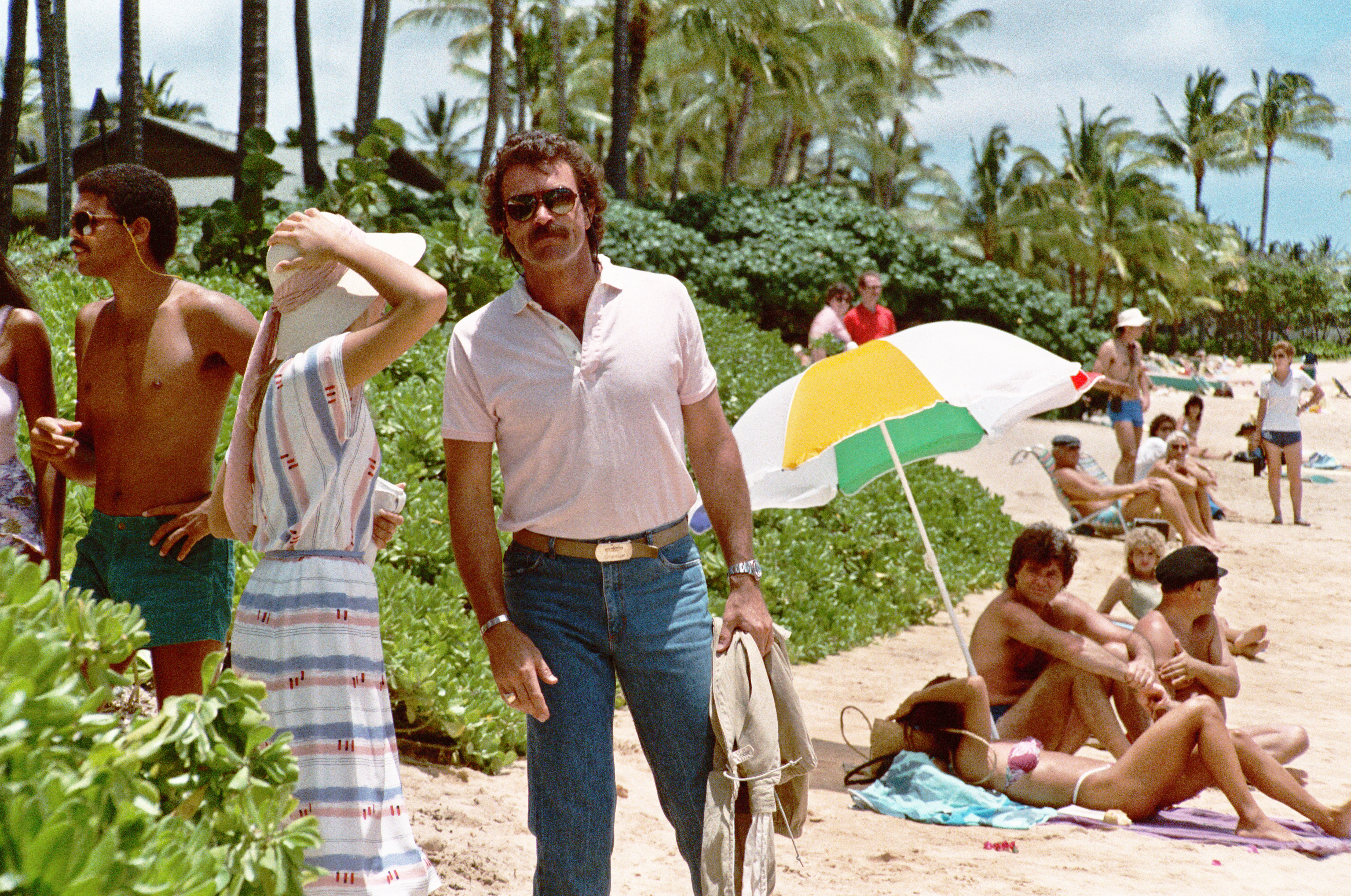 Tom Selleck, filming a scene for MAGNUM P.I. in April 1984 at the Kahala Hilton Hotel in Hawaii. The woman standing next to him, in sriped dress, is Sharon Stone, who was guest starring on the show that week.